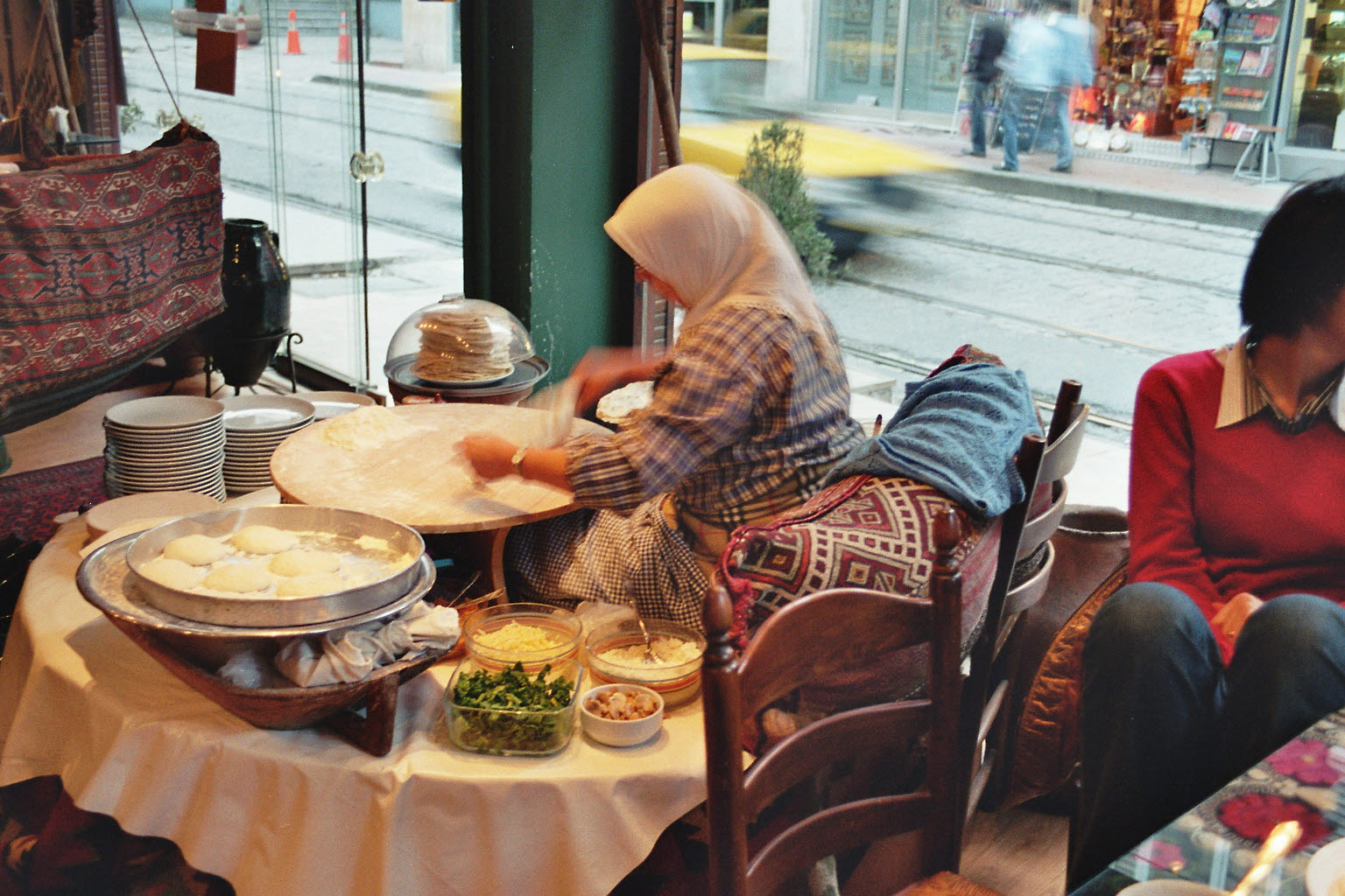 Scene in a restaurant in Istanbul, Turkey. A cooking lady prepares gözleme, a kind of pancake. On her lefthand she has several ingredients for the pancakes, like mushrooms and spinach.